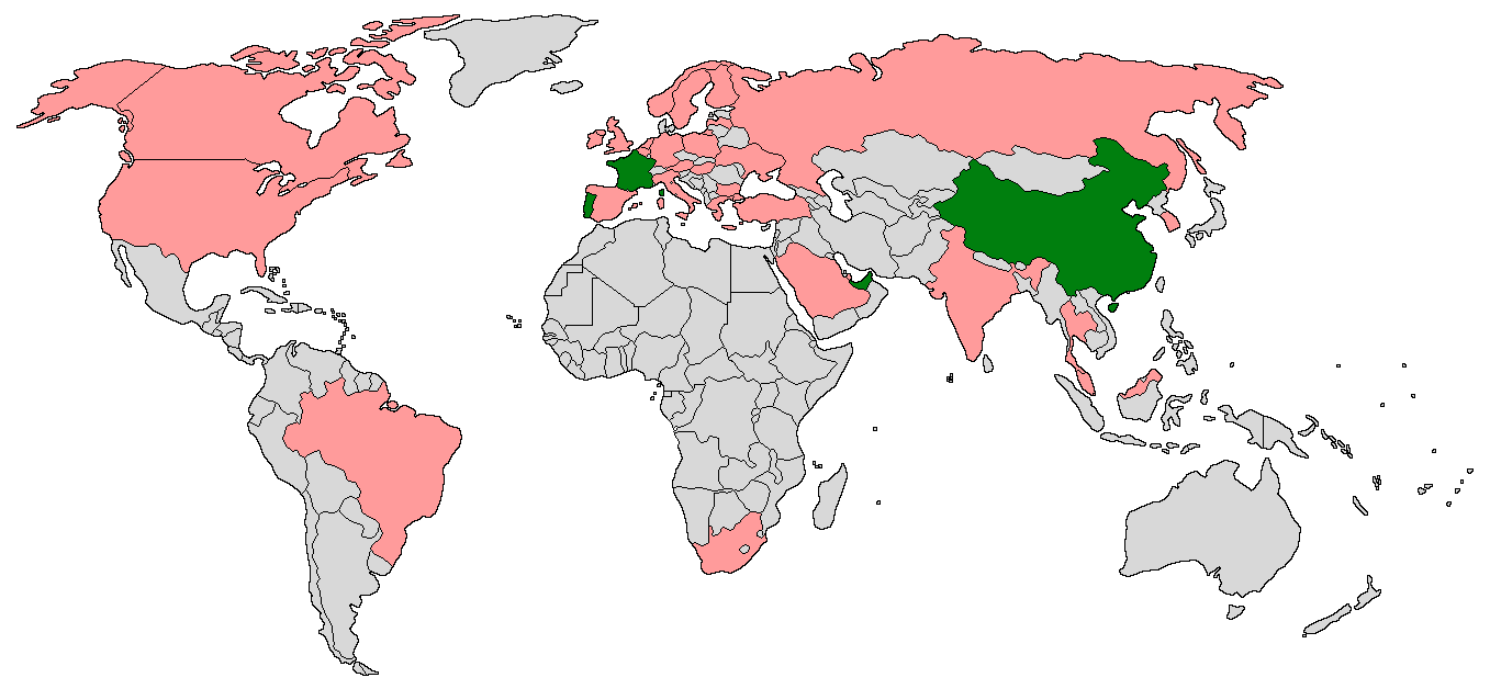 World map displaying the countries raced in by the Formula 1 Powerboat World Championship in its 2016 season in green. Former host nations shown in pink.